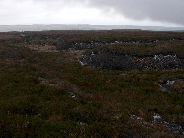 Stean Moor. Bleak grouse moor just after a hail shower.